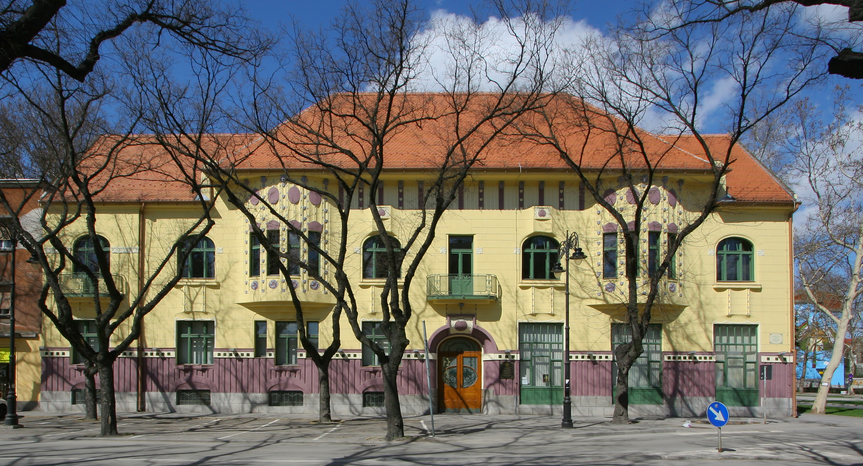 House in street Trg Sinagoge, number 3 in Subotica